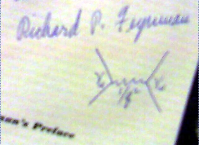 Picture of a Feynman diagram, inscribed by Richard P. Feynman to me, in my copy of Volume 3 of his Feynman Lectures on Physics (Quantum Mechanics). Picture taken by self. if you can't read the symbols, they are γ μ {\displaystyle \gamma _{\mu to γ μ {\displaystyle \gamma _{\mu and 1 / q 2 {\displaystyle 1/q^{2